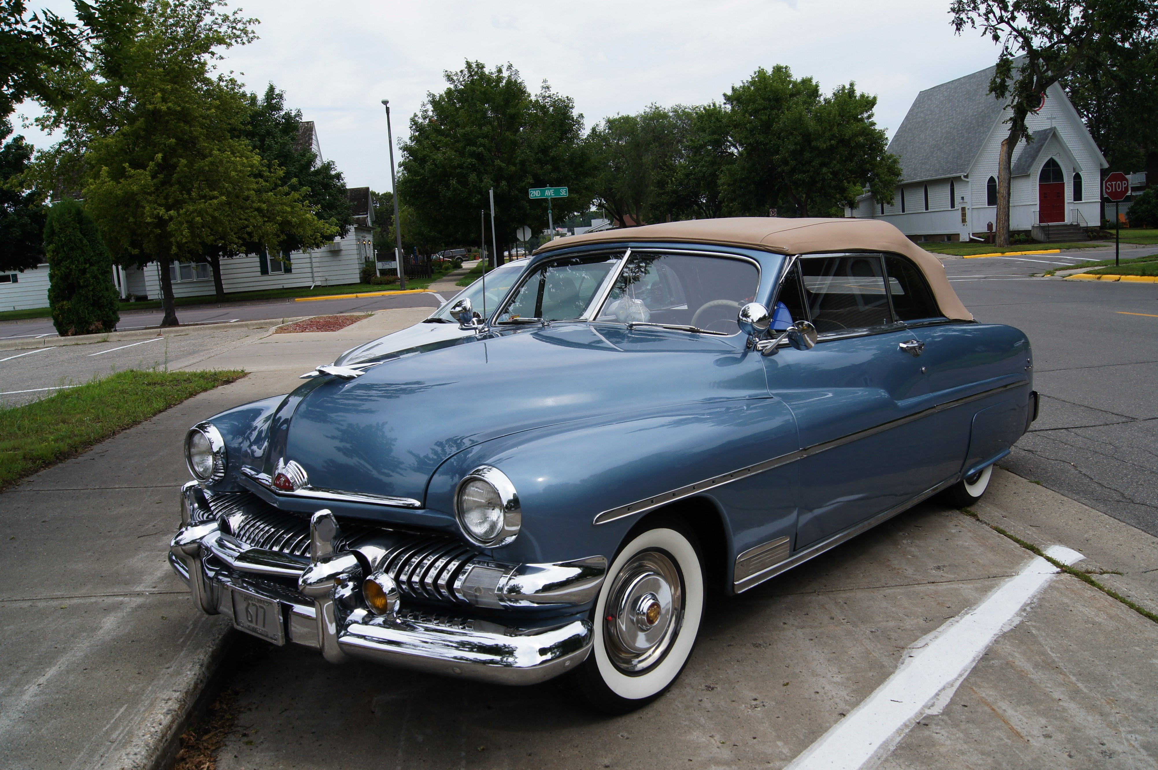 Willmar Car Club August Car Buffs' Breakfast American Legion #96 Hutchinson Minnesota